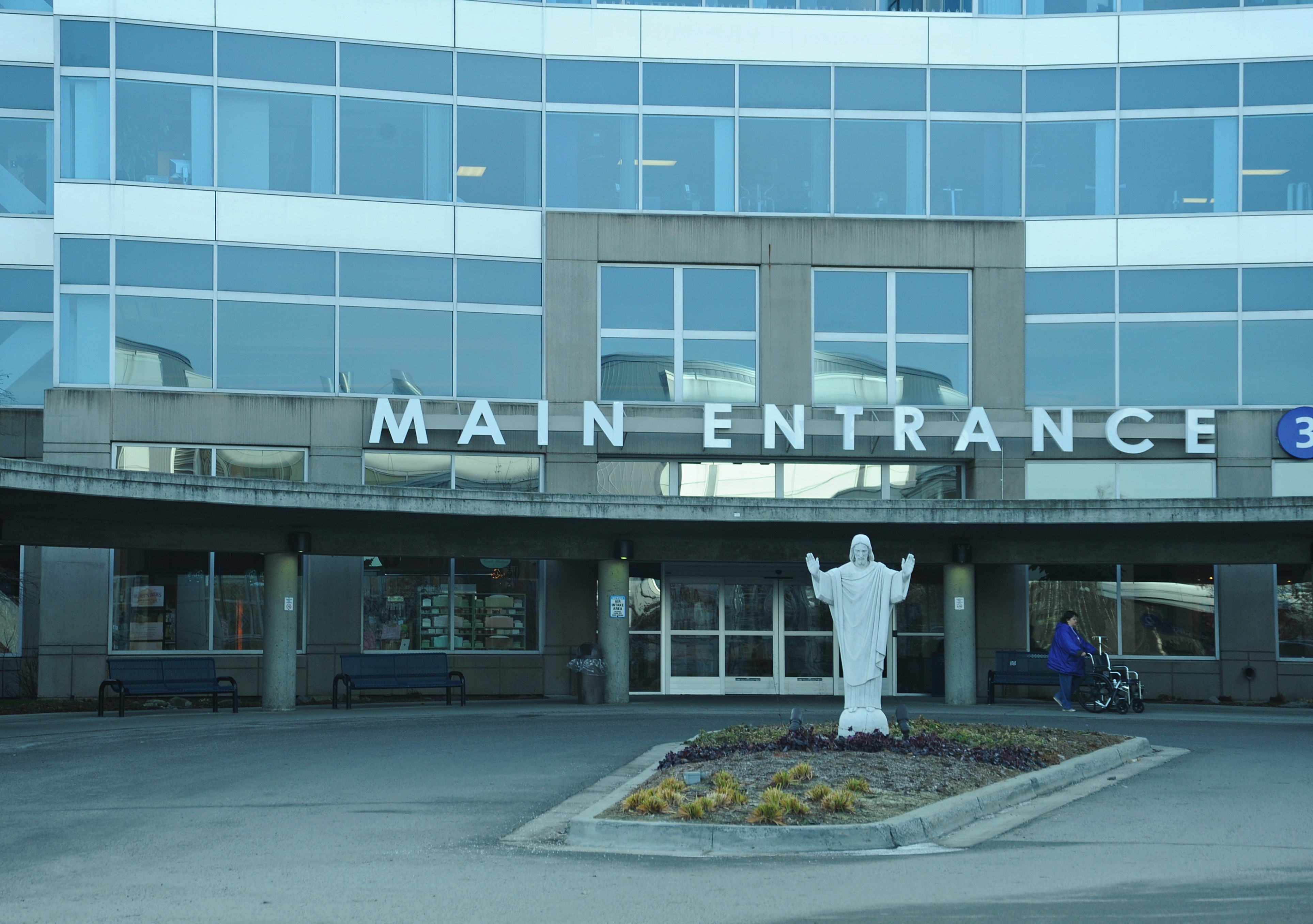 View of the main entrance of Providence Alaska Medical Center, in the U-Med district between east and midtown Anchorage, Alaska. PAMC is the largest hospital in the U.S. state of Alaska.